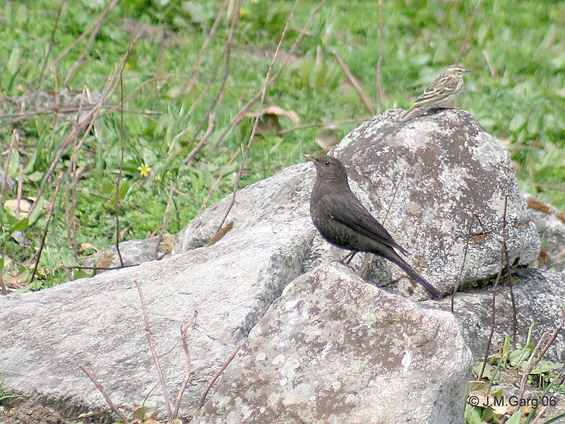 Tibetan Blackbird Turdus maximus female, at 3400 m in Kullu District of Himachal Pradesh, India.